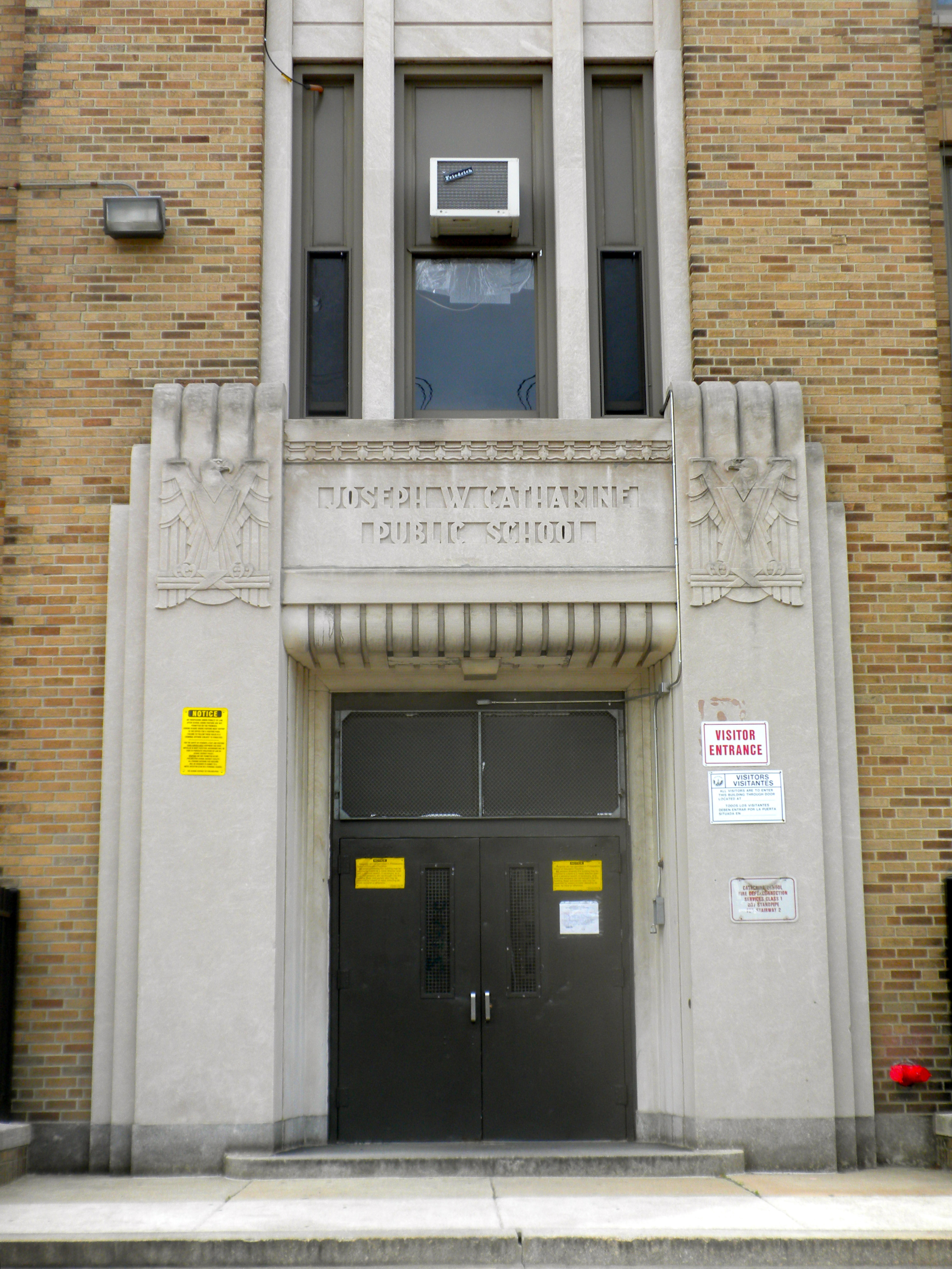 Joseph W. Catharine School, in SW Philadelphia on the NRHP since November 18, 1988. At 6600 Chester Avenue in Mount Moriah neighborhood